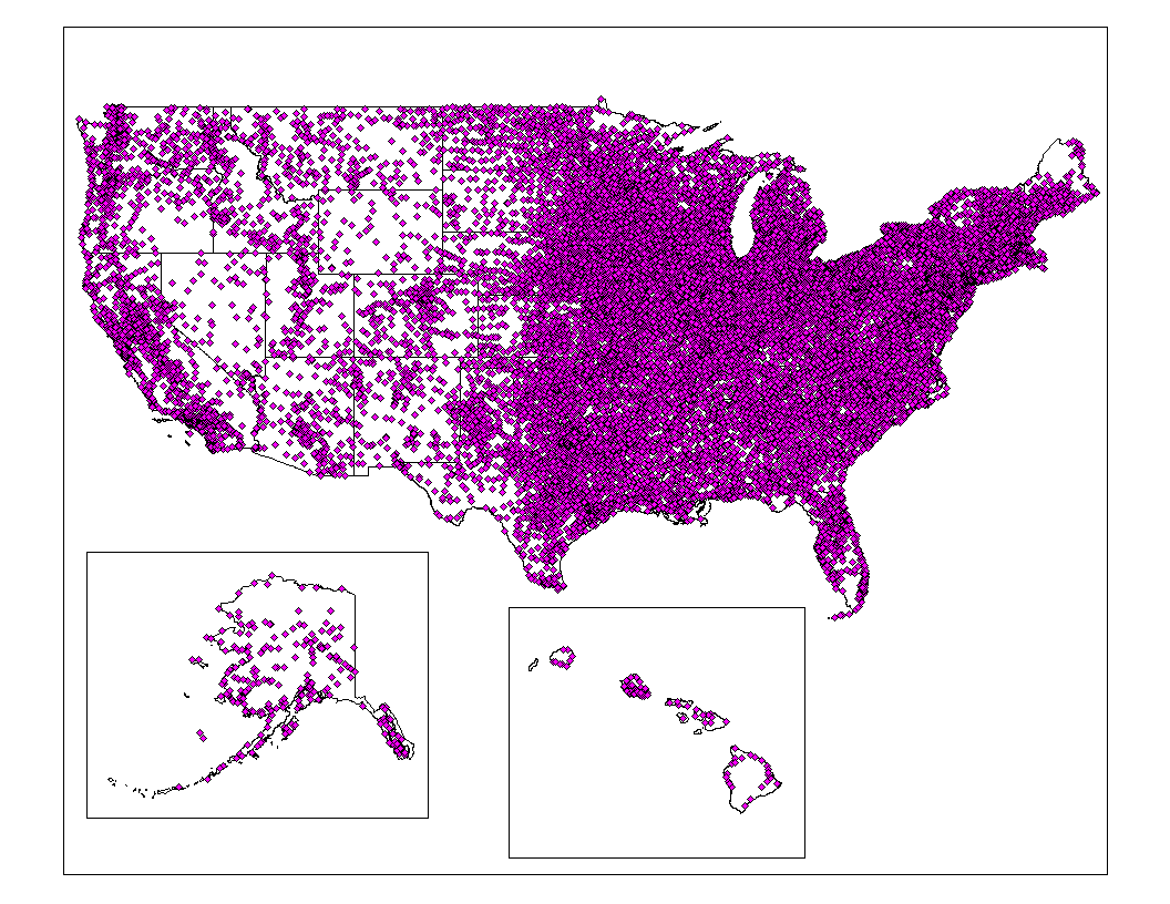 Map of the central (exchange) office locations of the United States. Created by Rarelibra 17:32, 26 October 2006 (UTC) for public domain use, using MapInfo Professional v8.5 and various mapping resources.